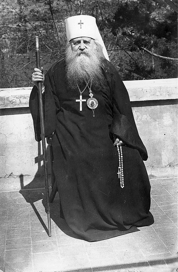 Metropolitan Antony (Khrapovitsky). Sremski Karlovci. 1925